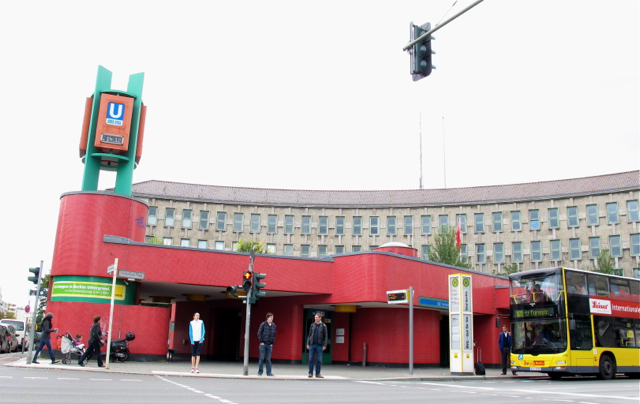 The Underground Station Fehrbelliner Platz in Berlin, Architect Rainer G. Rümmler, inaugurated in 1971